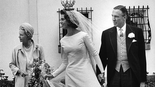 Princess Margaretha of Sverige and her husband John Ambler together with the princess Sibylla outside Solliden after the cermony.